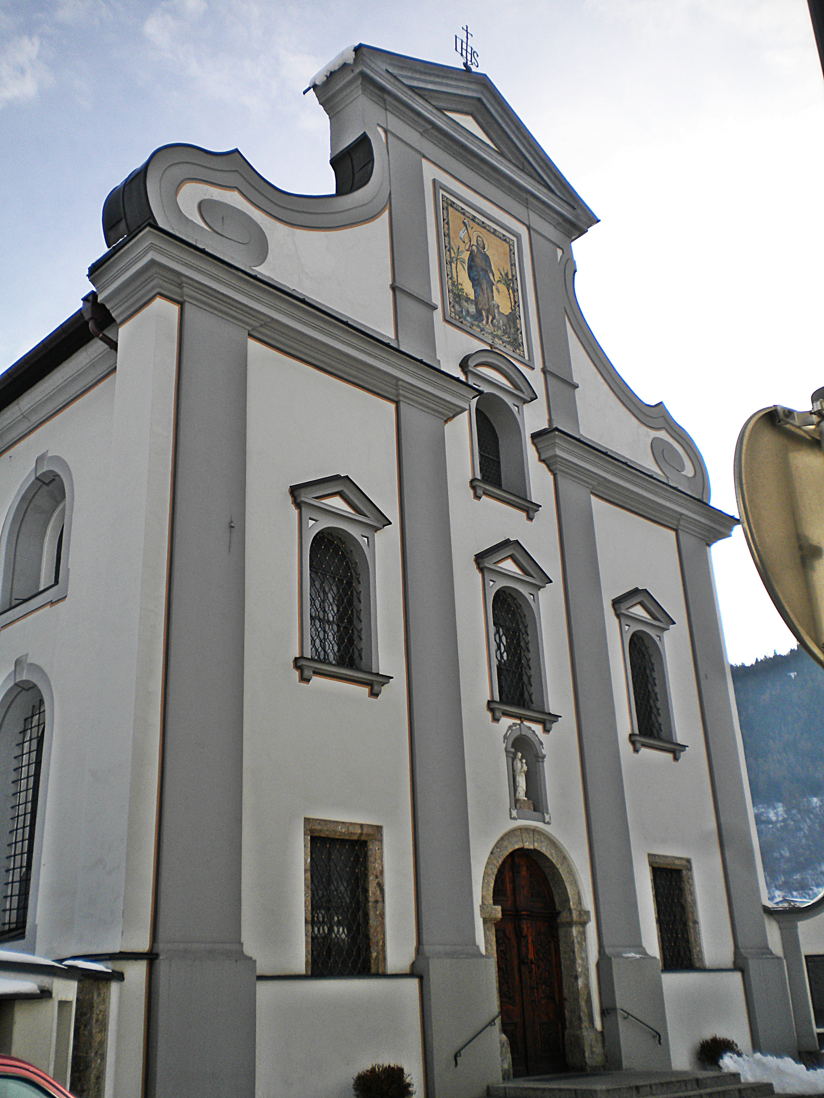 parish church